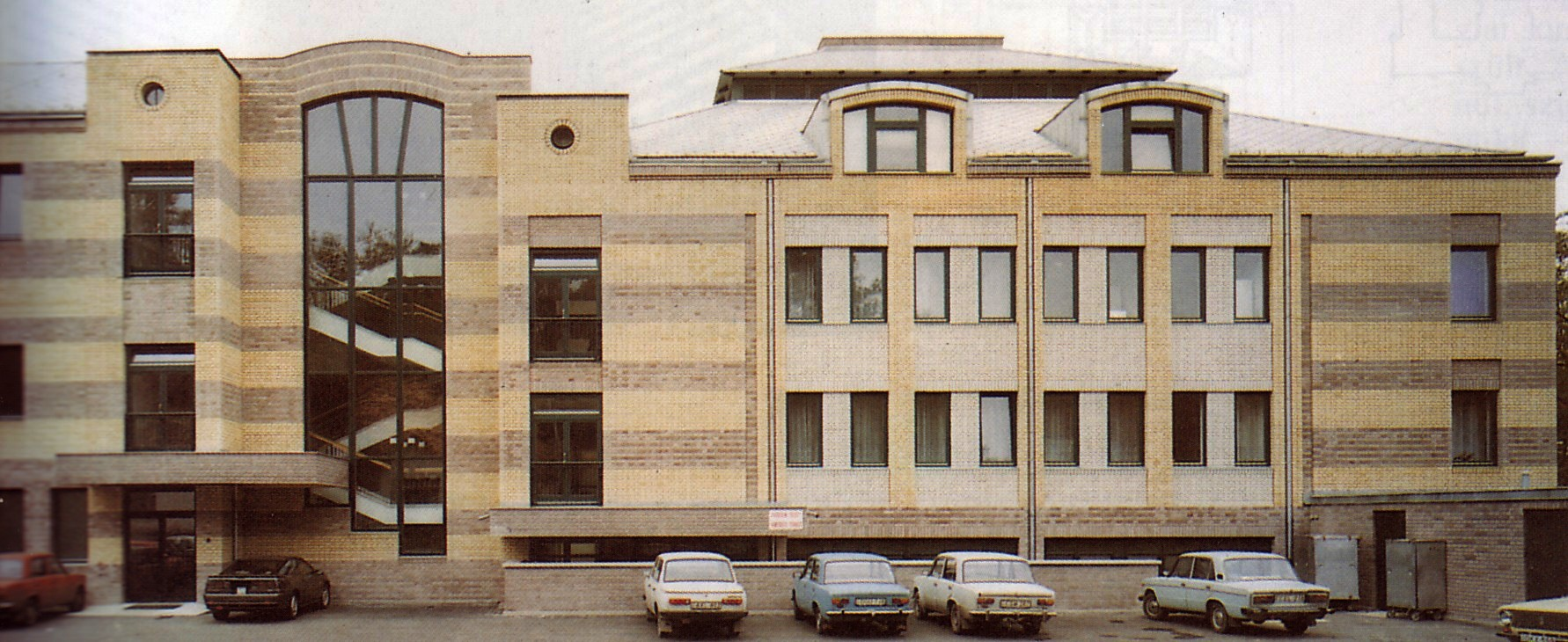 Cardiac Surgery, University of Debrecen Medical Center